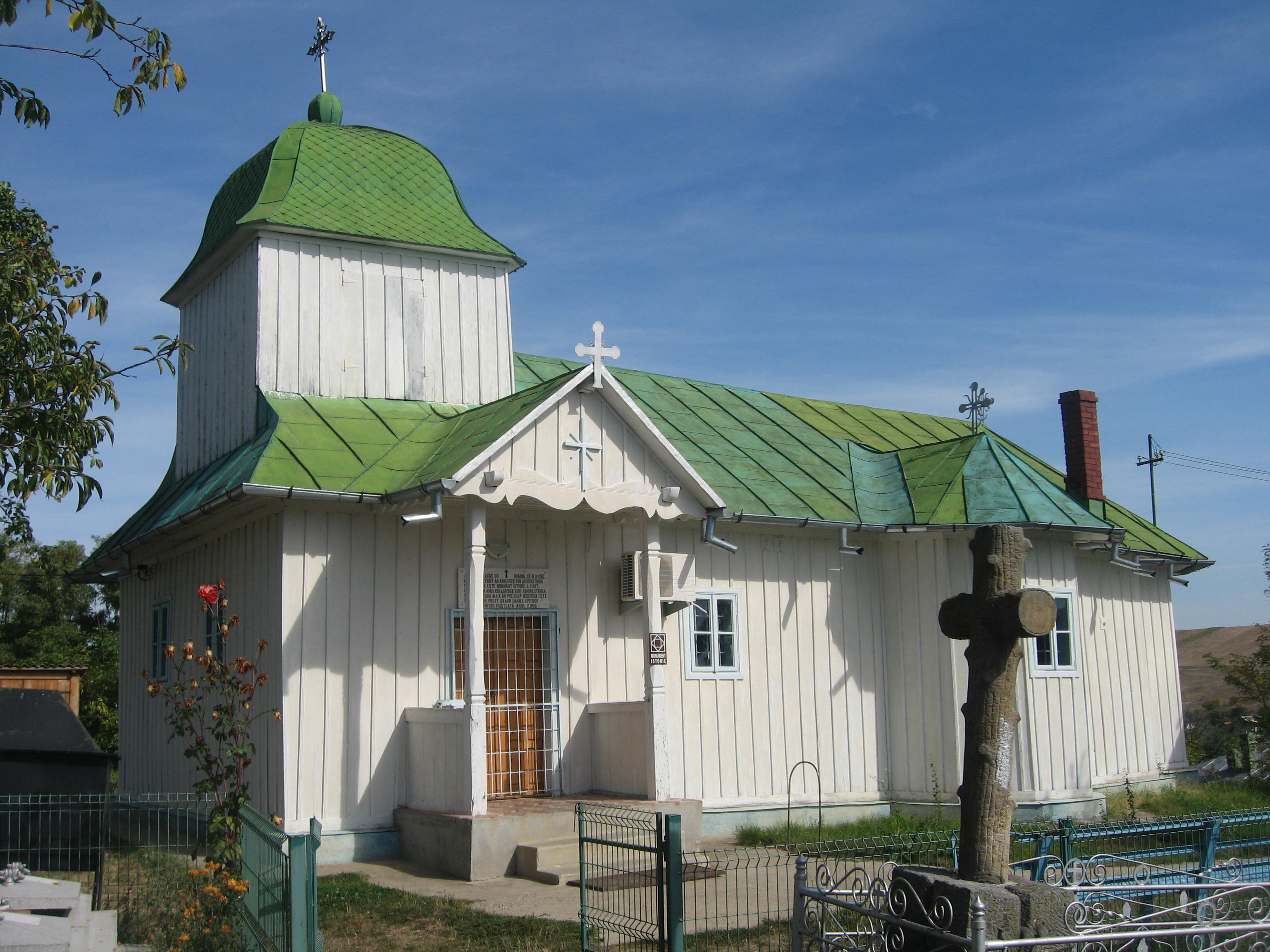 Biserica de lemn din Voroveşti